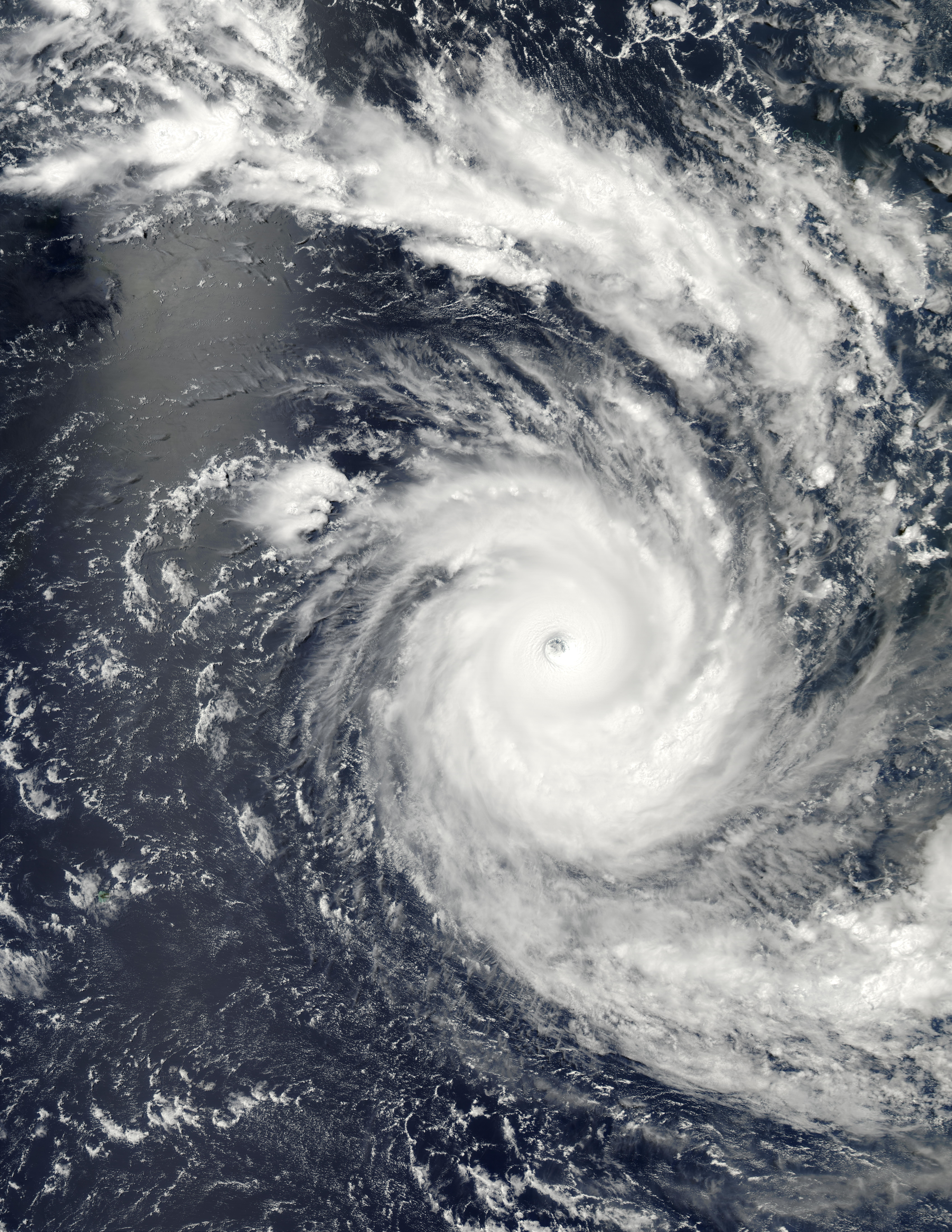 This image shows Tropical Cyclone Kalunde in the Indian Ocean in early March 2003. The image was acquired by the Moderate Resolution Imaging Spectroradiometer (MODIS) instrument on the Aqua satellite.